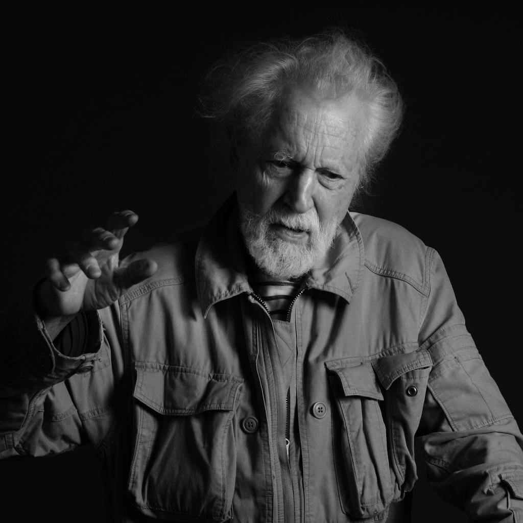 Thor Vilhjalmsson in 2008